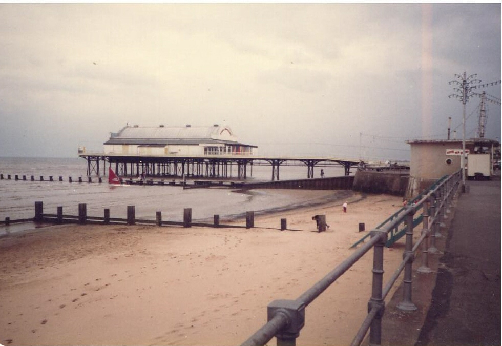 Cleethorpes, North Pier and sands. Seaside view from close to railway station. Compare this to 853881 - fewer defence/breaks in sand.